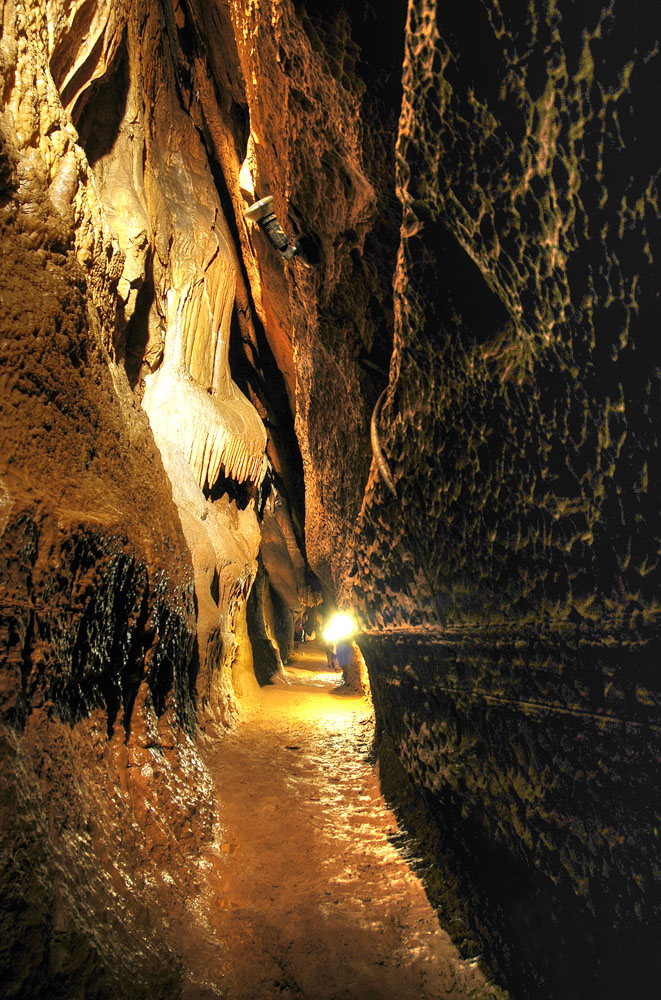 Vass Imre Cave in Jósvafő, Hungary.